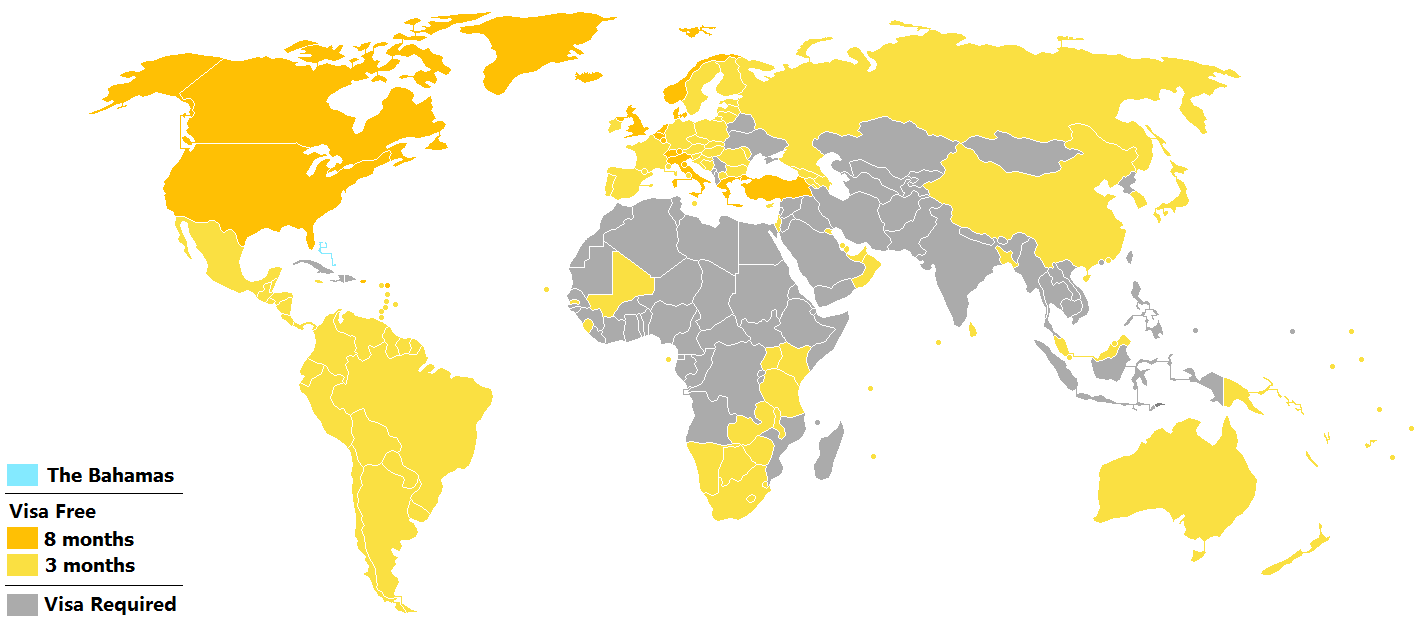 Visa policy of the Bahamas The Bahamas Visa-free - 8 months Visa-free - 3 months Visa required